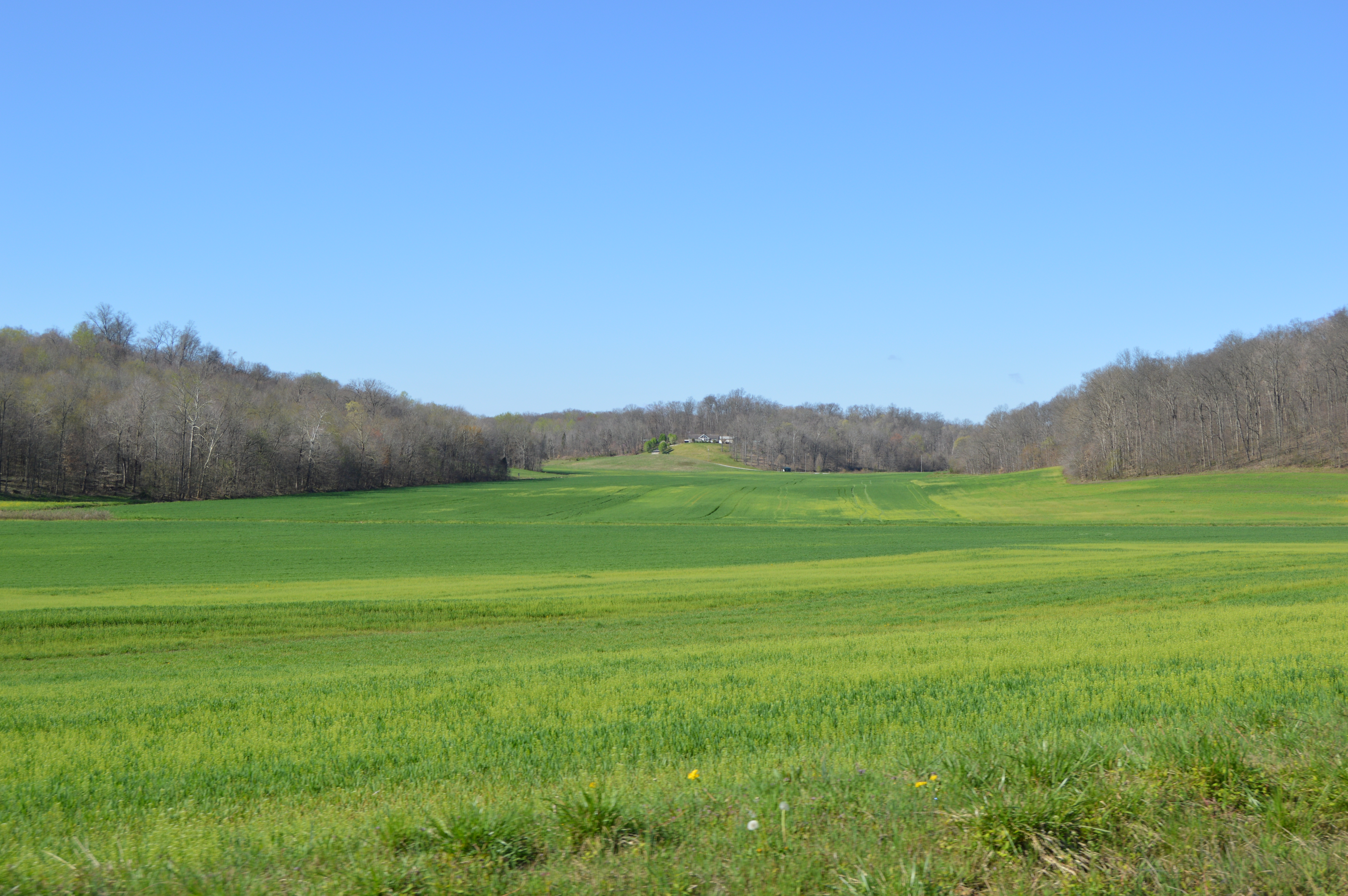 Wheat fields southwest of E1550N and east of Fulda in Harrison Township, Spencer County, Indiana, United States.